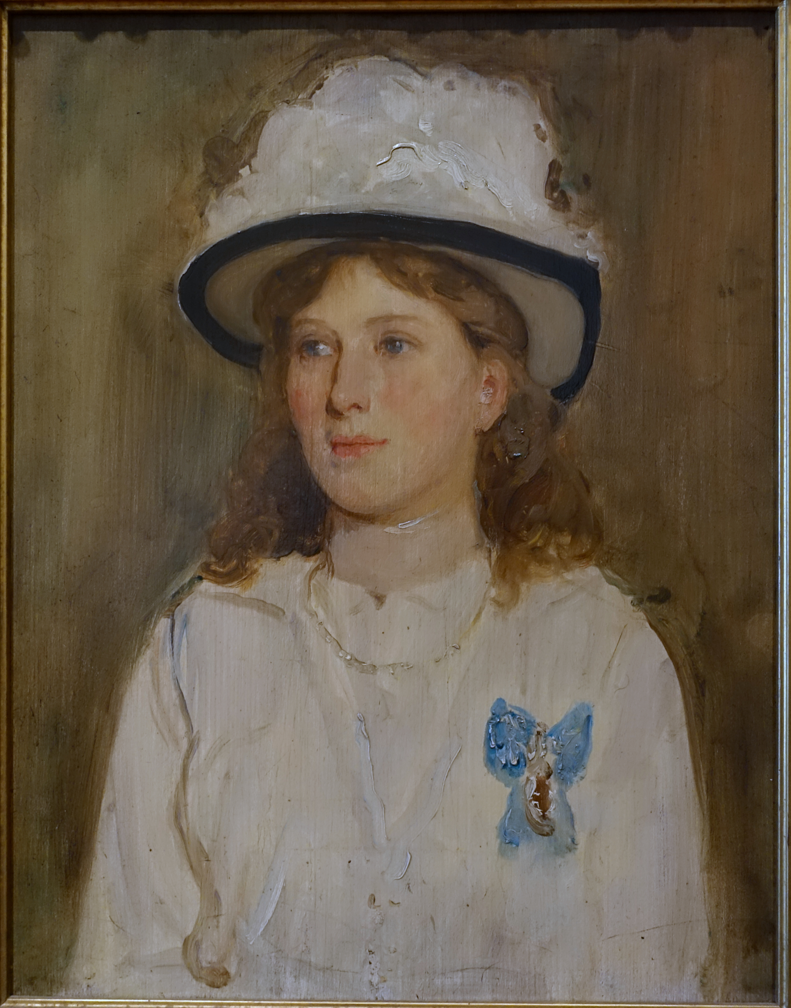 Princess Mary as a girl, by Solomon J. Solomon, 1911, oil on canvas - Harewood House - West Yorkshire, England.